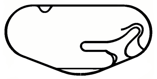 Map of the Daytona International Speedway Karte des Daytona International Speedway